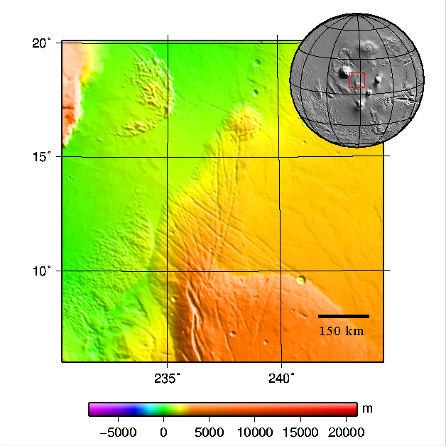 Topography map of Ulysses Fossae on Mars